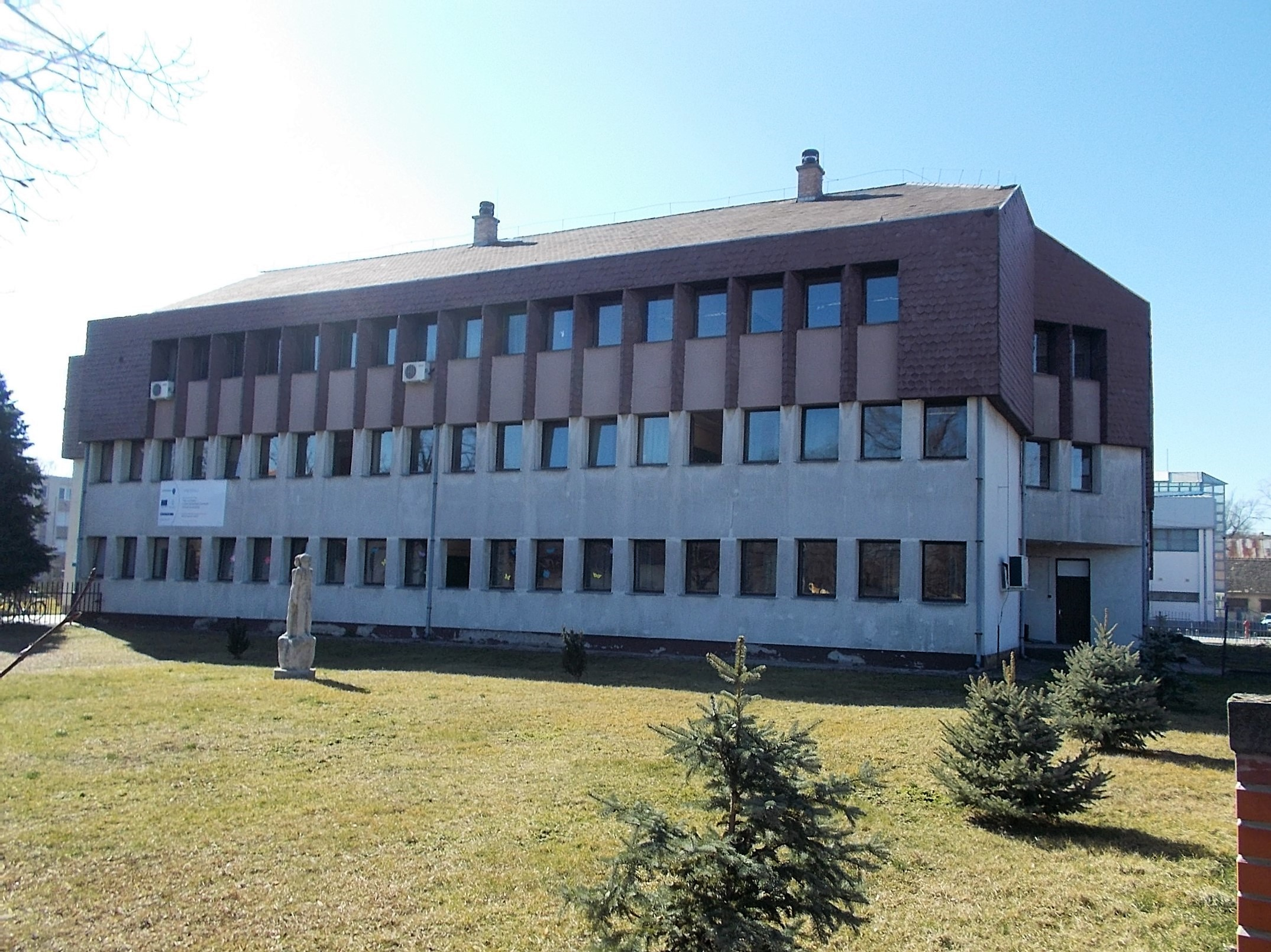 Baja Vocational Training Center György Dózsa Vocational Secondary School, Vocational Secondary School and Student Housing. - 2 Martinovics Ignác utca, Kalocsa, Bács-Kiskun County.